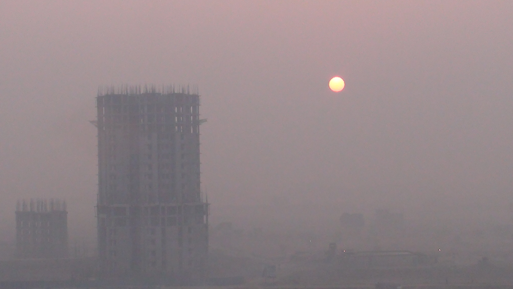 A misty winter day on the outskirts of Lucknow